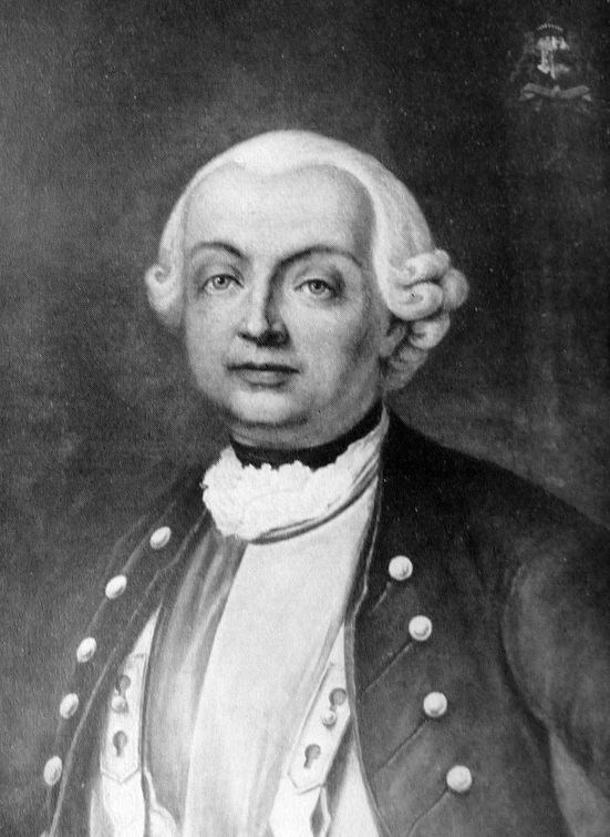 Black and white reproduction of oil painting of Major General Jean de Forcade de Biaix, circa 1718.